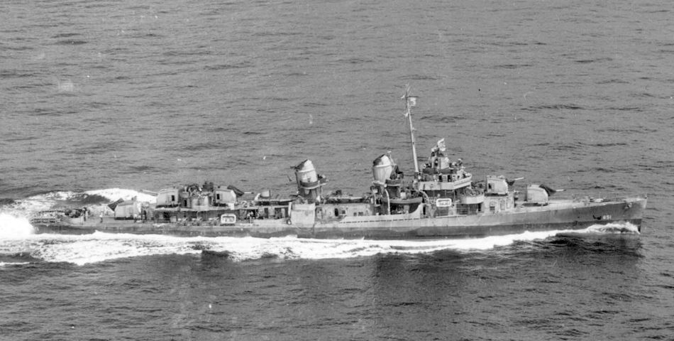 The U.S. Navy destroyer USS Cogswell (DD-651) underway in the Pacific Ocean, in 1945.